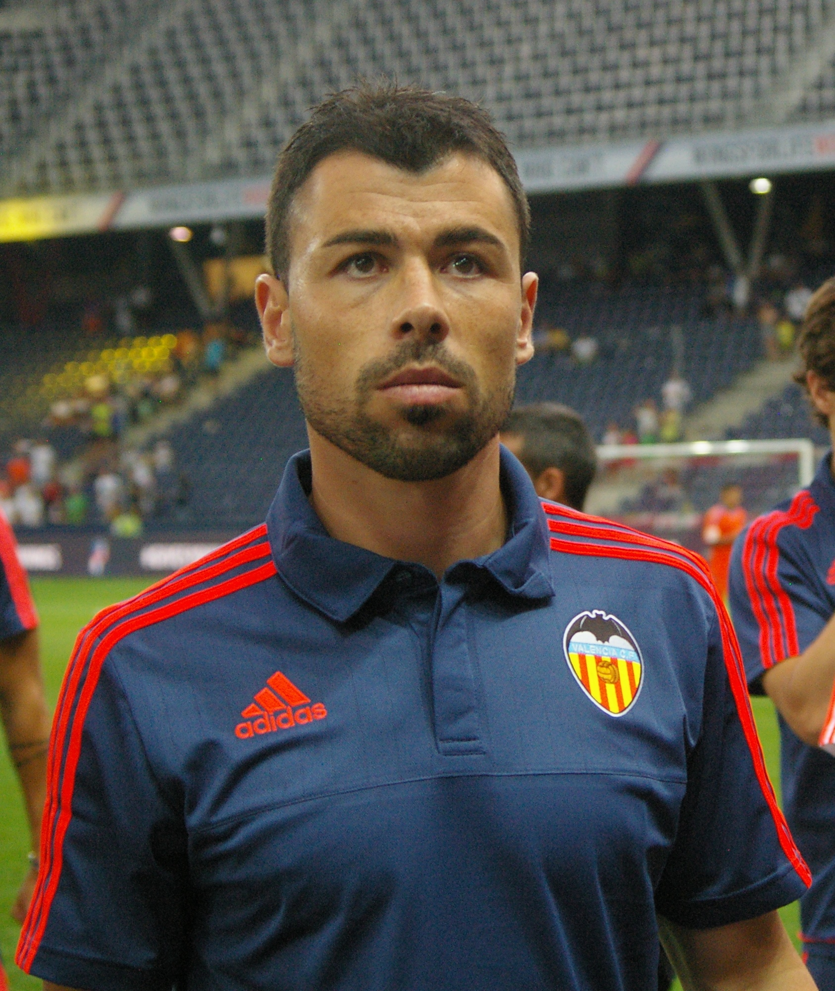 tournament with SV Werder Bremen, FC Southampton, Red Bull Salzburg and Valencia CF preseason friendly matches